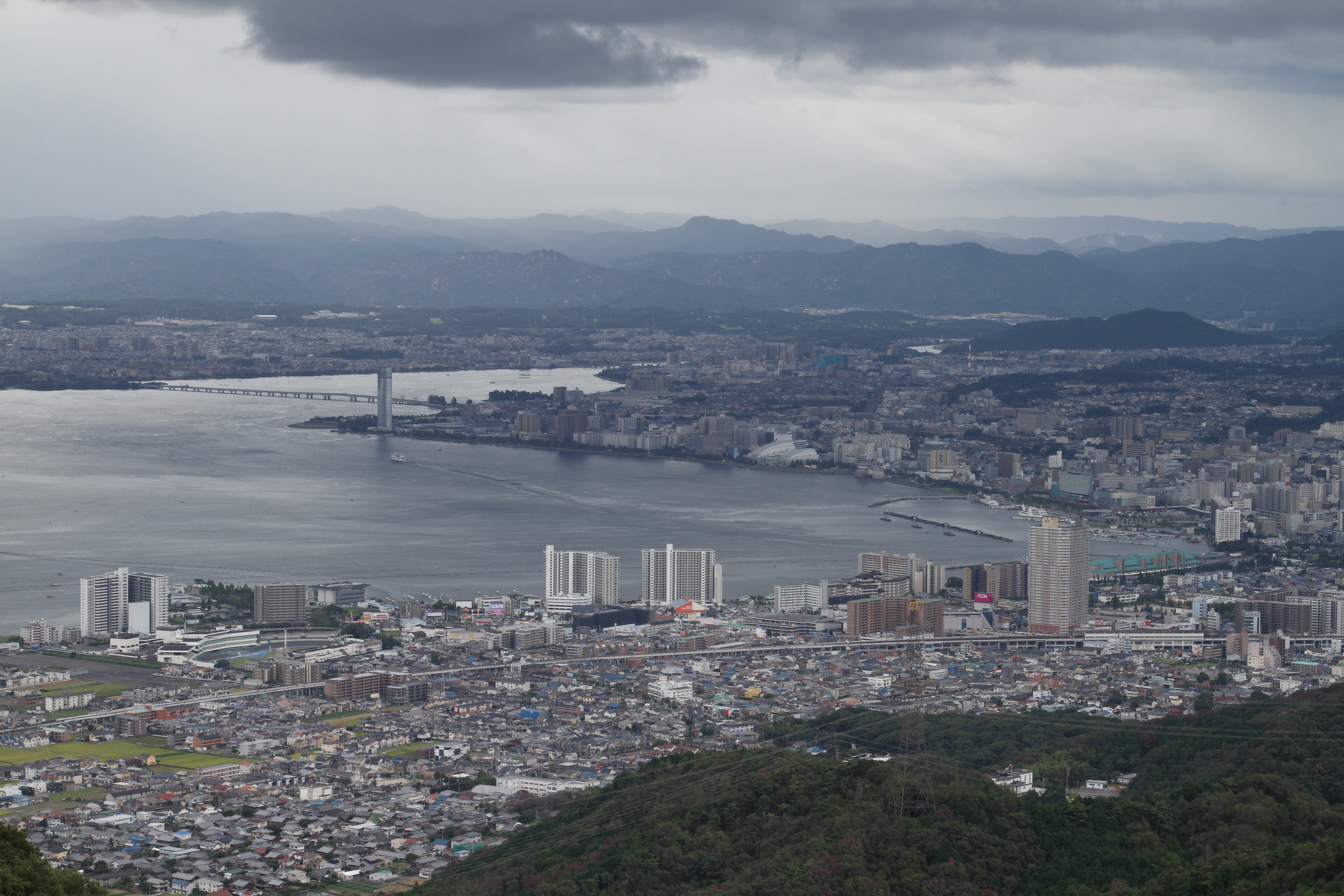 Shigasatochoko, Otsu, Shiga Prefecture 520-0000, Japan